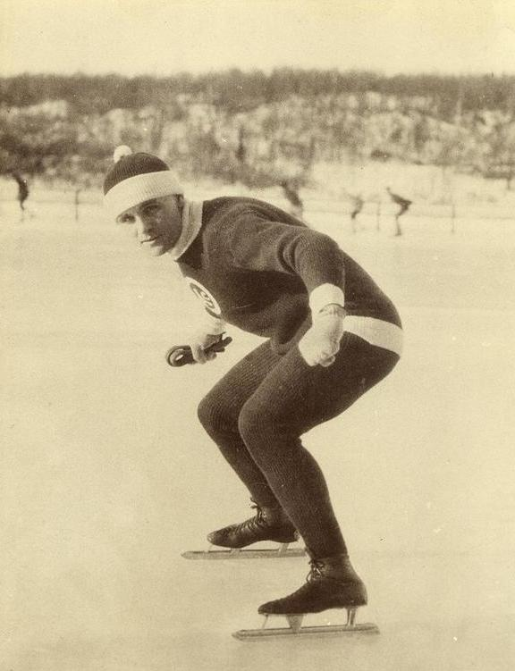 Charles Gorman, world champion speed skater, circa 1921. Saint John, New Brunswick, Canada.